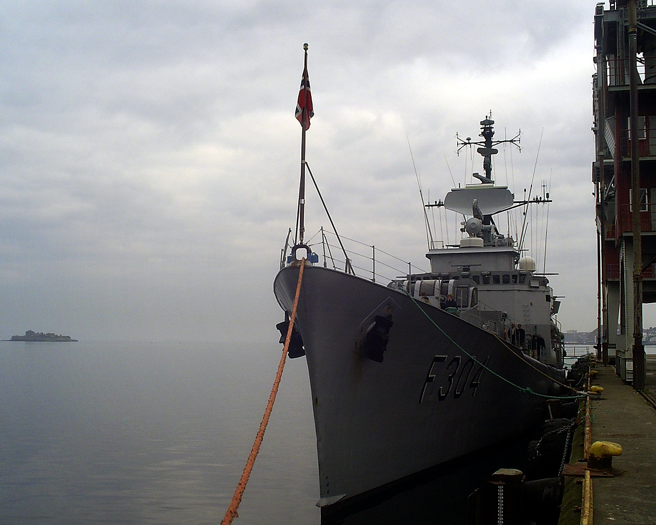 The last active Oslo class frigate in commission, the KNM Narvik, during a port visit in Trondheim. Munkholmen is visible to the far left.